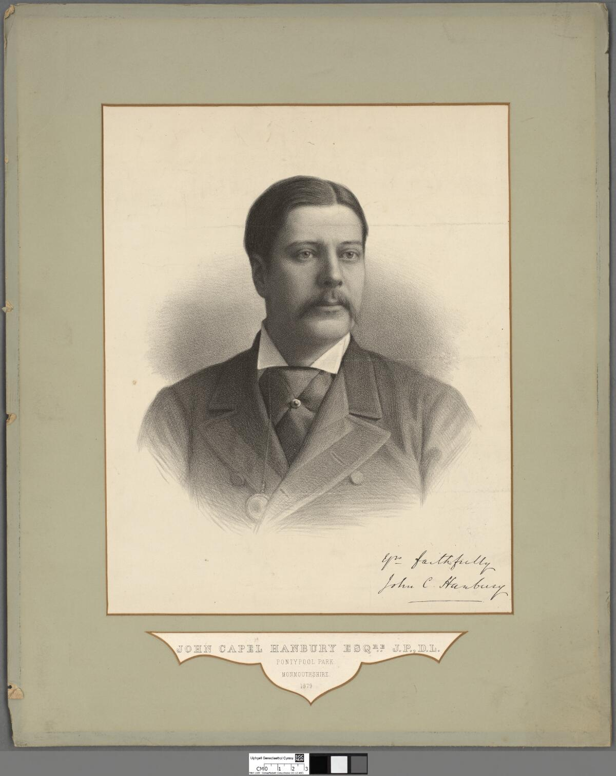 A portrait from the Welsh Portrait Collection at the National Library of Wales. Depicted person: John Capel Hanbury – gent of Pontypool Park